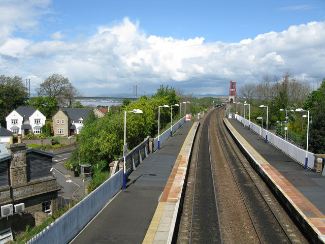 Dalmeny Railway Station. Compare this 2009 view with 820464 from 1973.